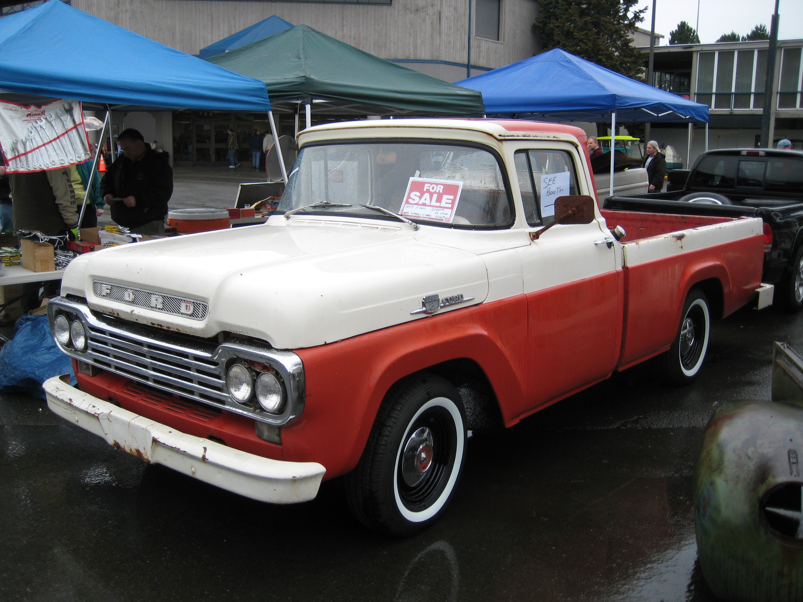 Early Bird Swap Meet at the fairgrounds in Puyallup, Washington, February, 2010.